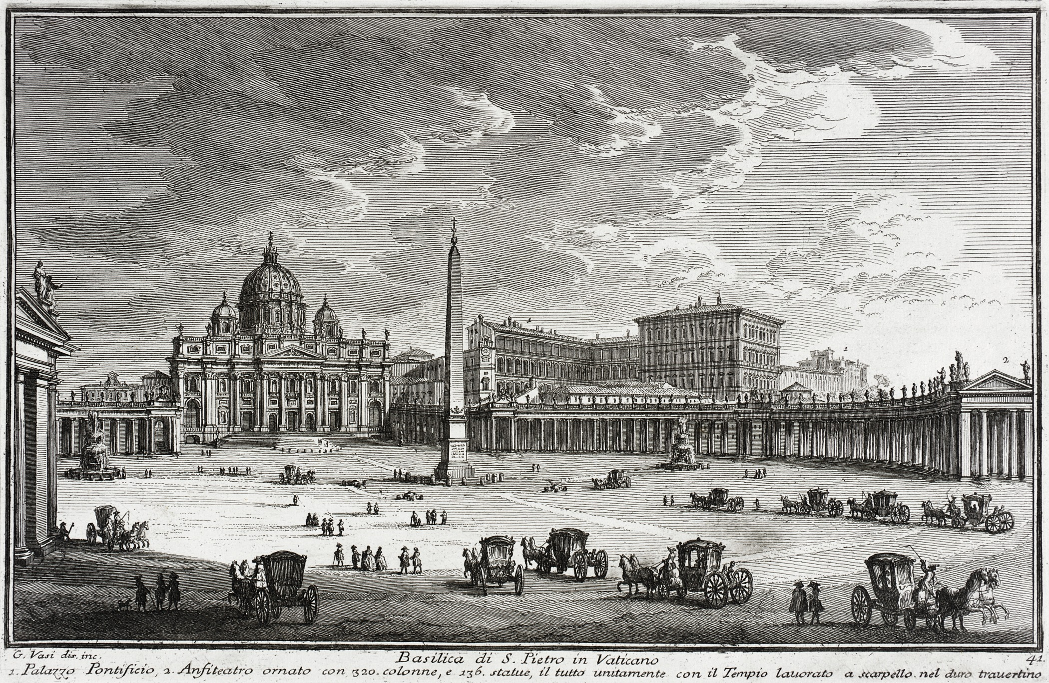 Italy, circa 1753 Alternate Title: Basilica di S. Pietro, Vaticano Series: Delle magnificence di Roma antica e moderna, Libro terzo (Rome, 1753), pl. 41 Prints; etchings Etching Sheet: 10 1/4 x 14 3/4 in. (26 x 37.5 cm); Plate: 8 1/4 x 12 5/8 in. (21 x 32.1 cm) Gift of Mary Louise Atkinson (M.91.155.2) Prints and Drawings